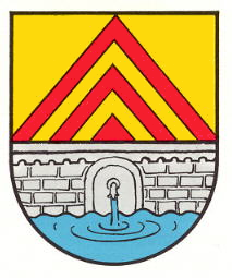 Coat of arms of Eppenbrunn